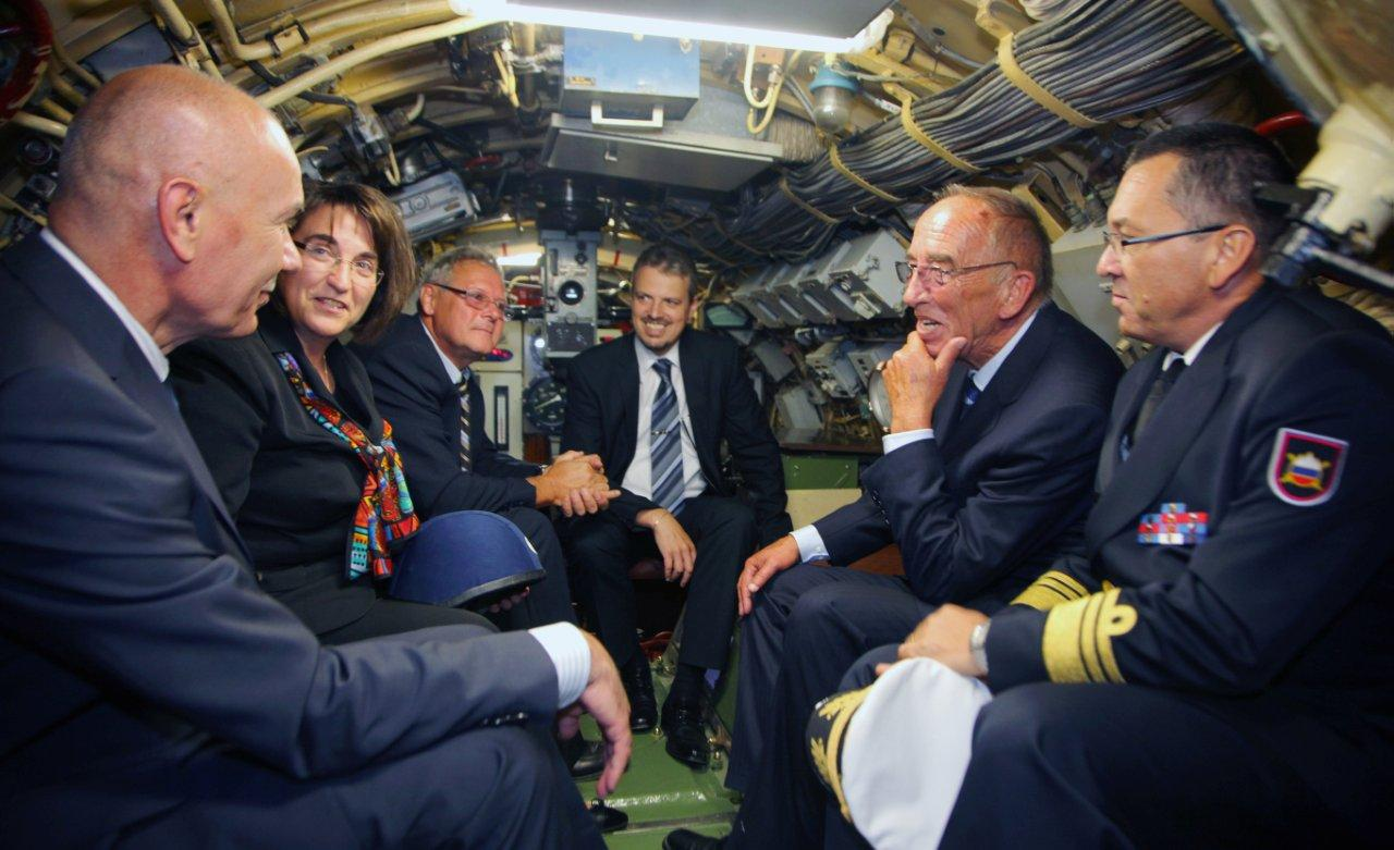 Renovated P-913 Zeta submarine at Pivka Military History Park